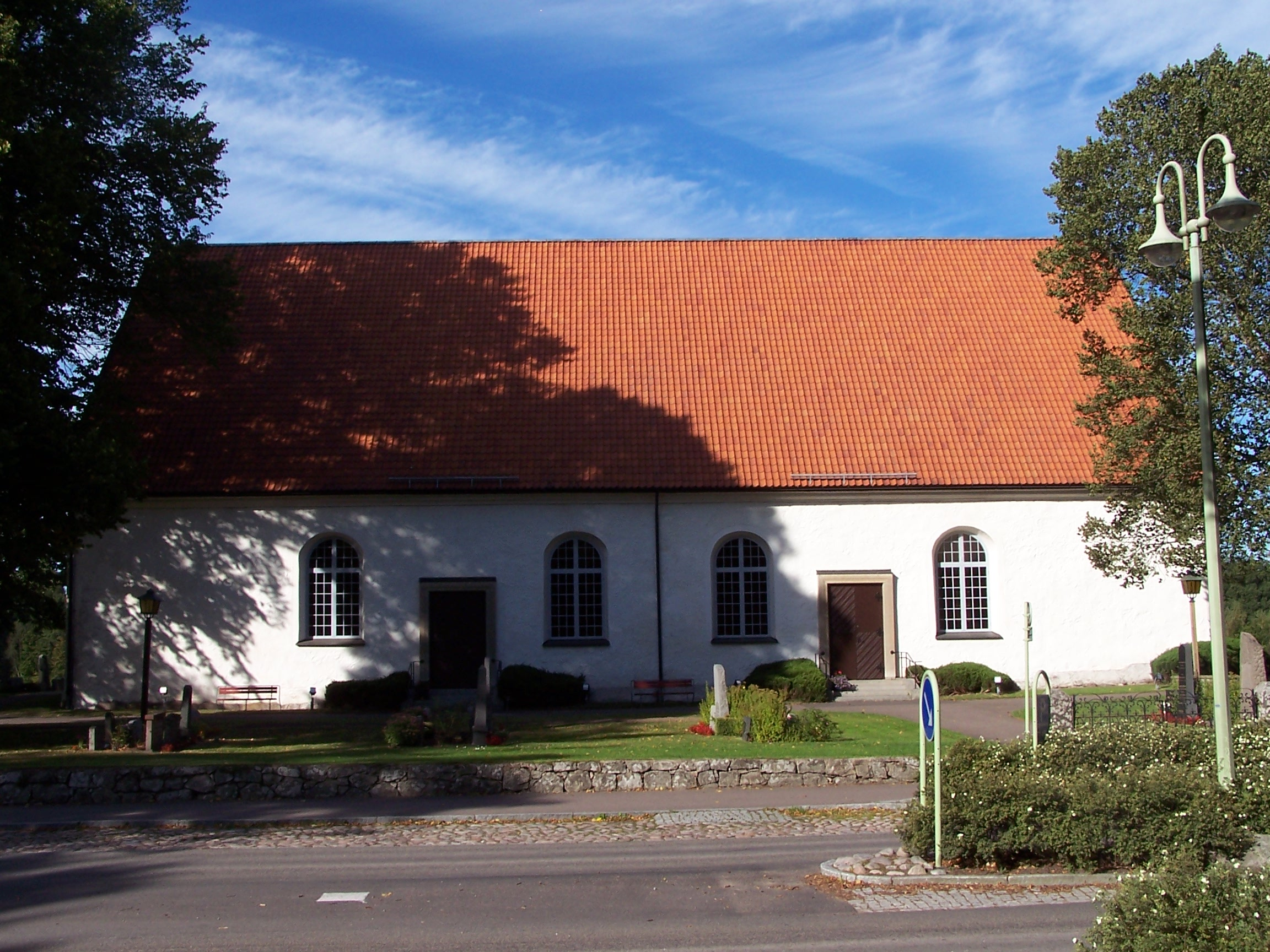 Torsås church, Sweden - Exterior from east